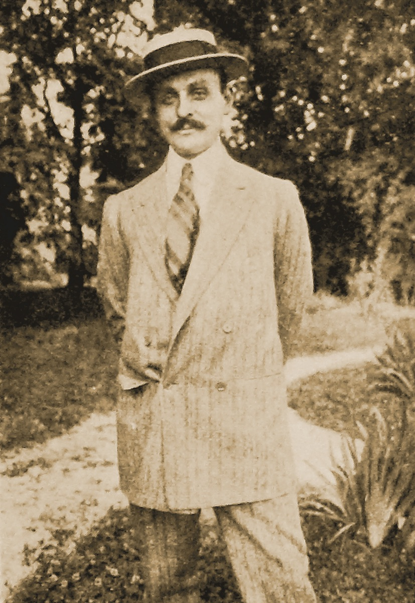 Prince George Valentin Bibescu from Romania about 1911